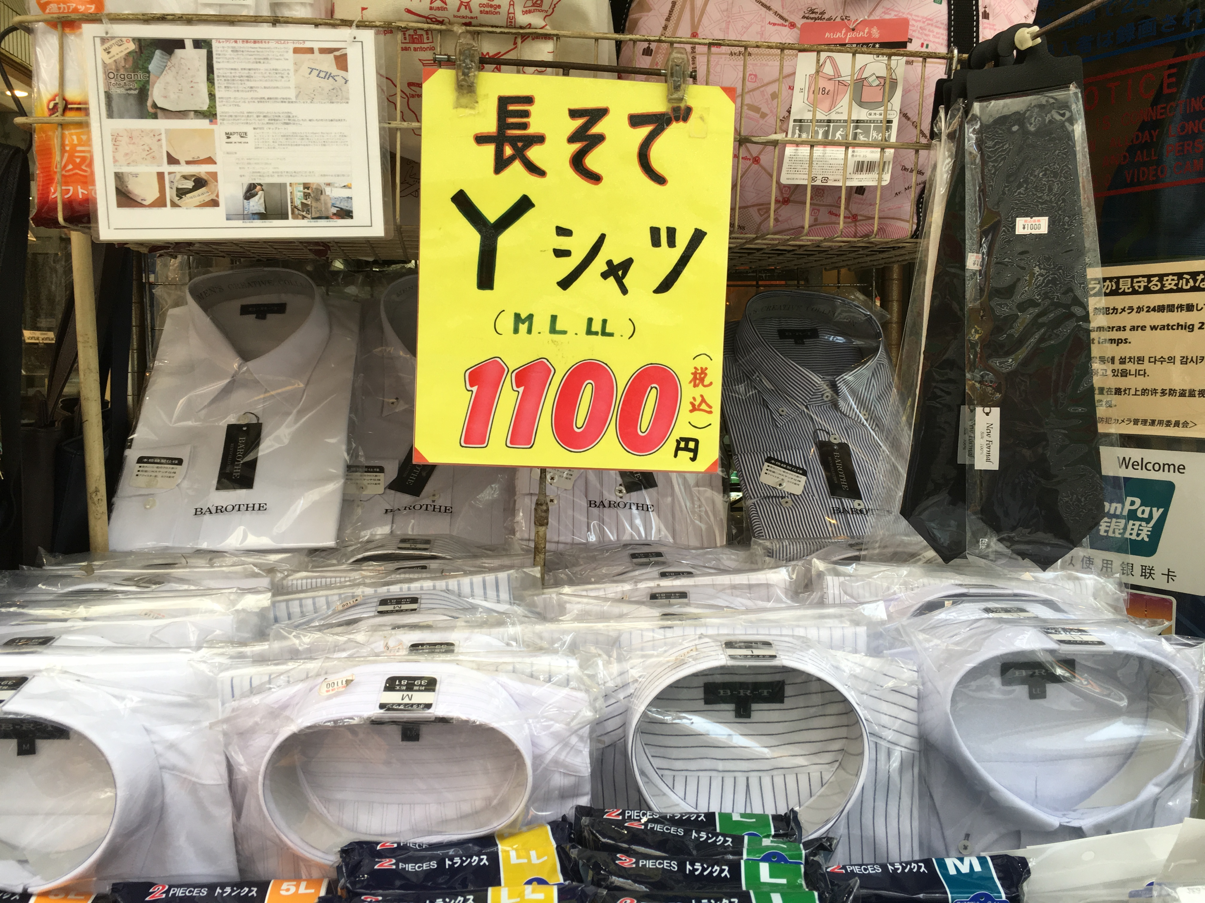 Yシャツ販売している店、新橋にて (A shop selling dress shirts in Shimbashi, Japan)